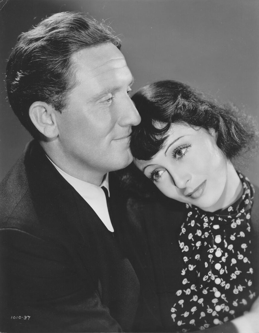 Spencer Tracy & Luise Rainer in the American drama film Big City (1937).